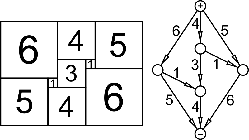 Smith diagram of a rectangle